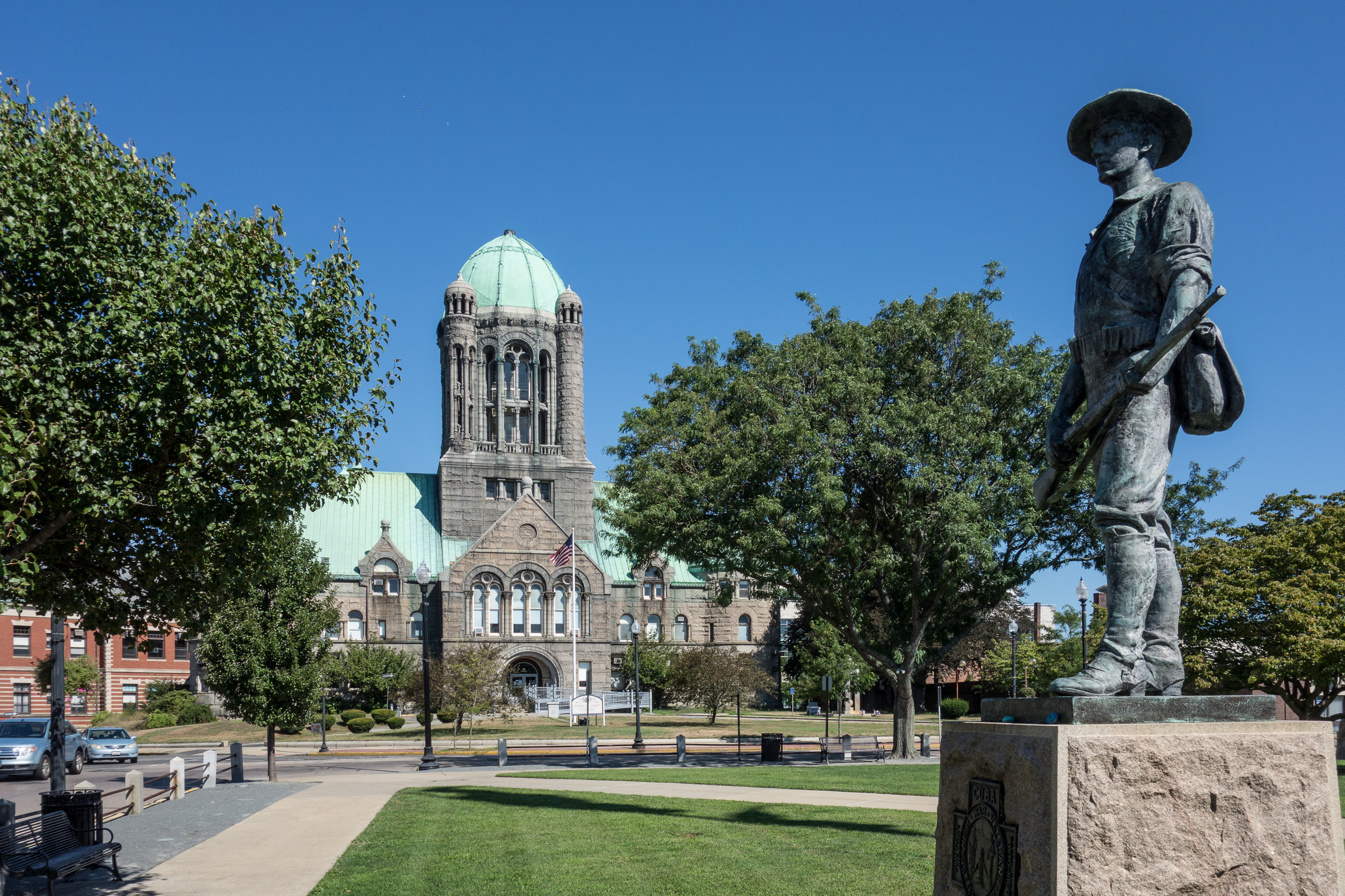 Courthouse and The Hiker statue, Taunton Green. Taunton, Massachusetts